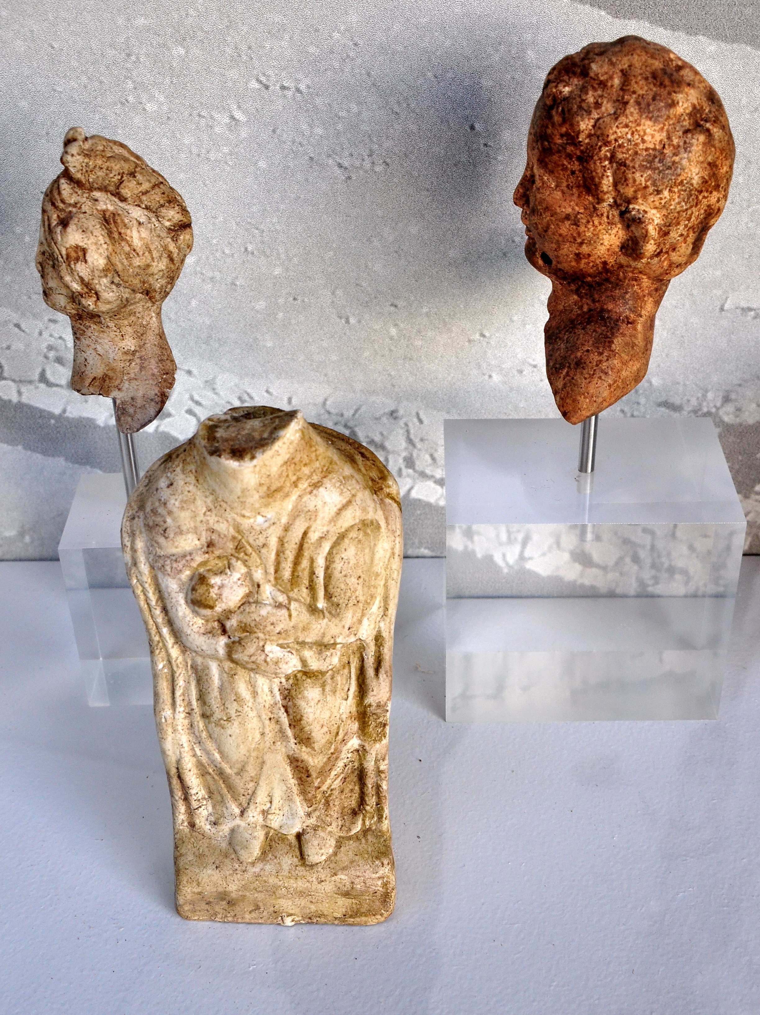 Römerwiese site (remains of a probably commercial building) of the Roman vicus Centum Prata at Kempraten respectively Rapperswil (Switzerland)